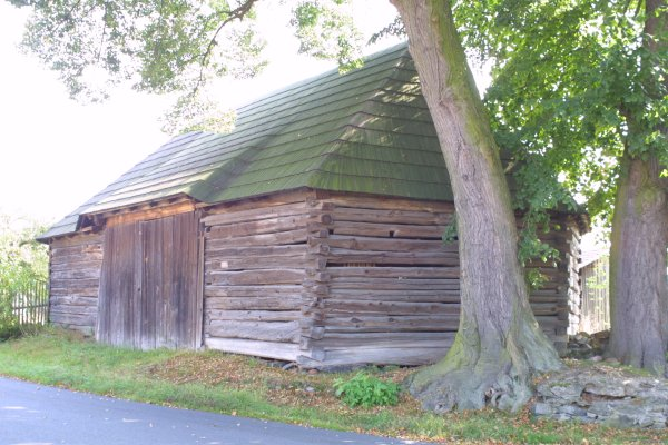 Wooden barn in Borek, Plzeň Region, Czech Republic.